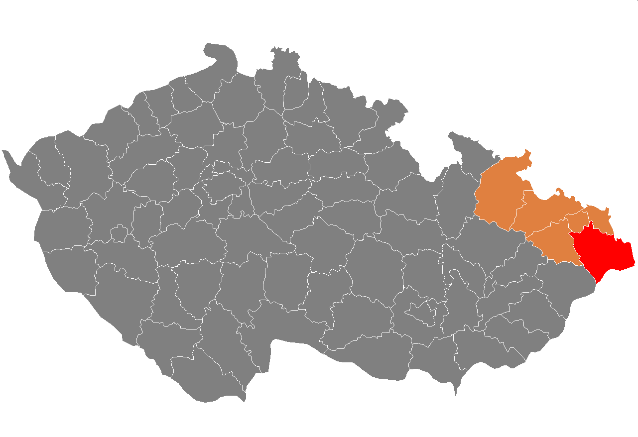 Location of Bruntál District within Moravian-Silesian Region and the Czech Republic.